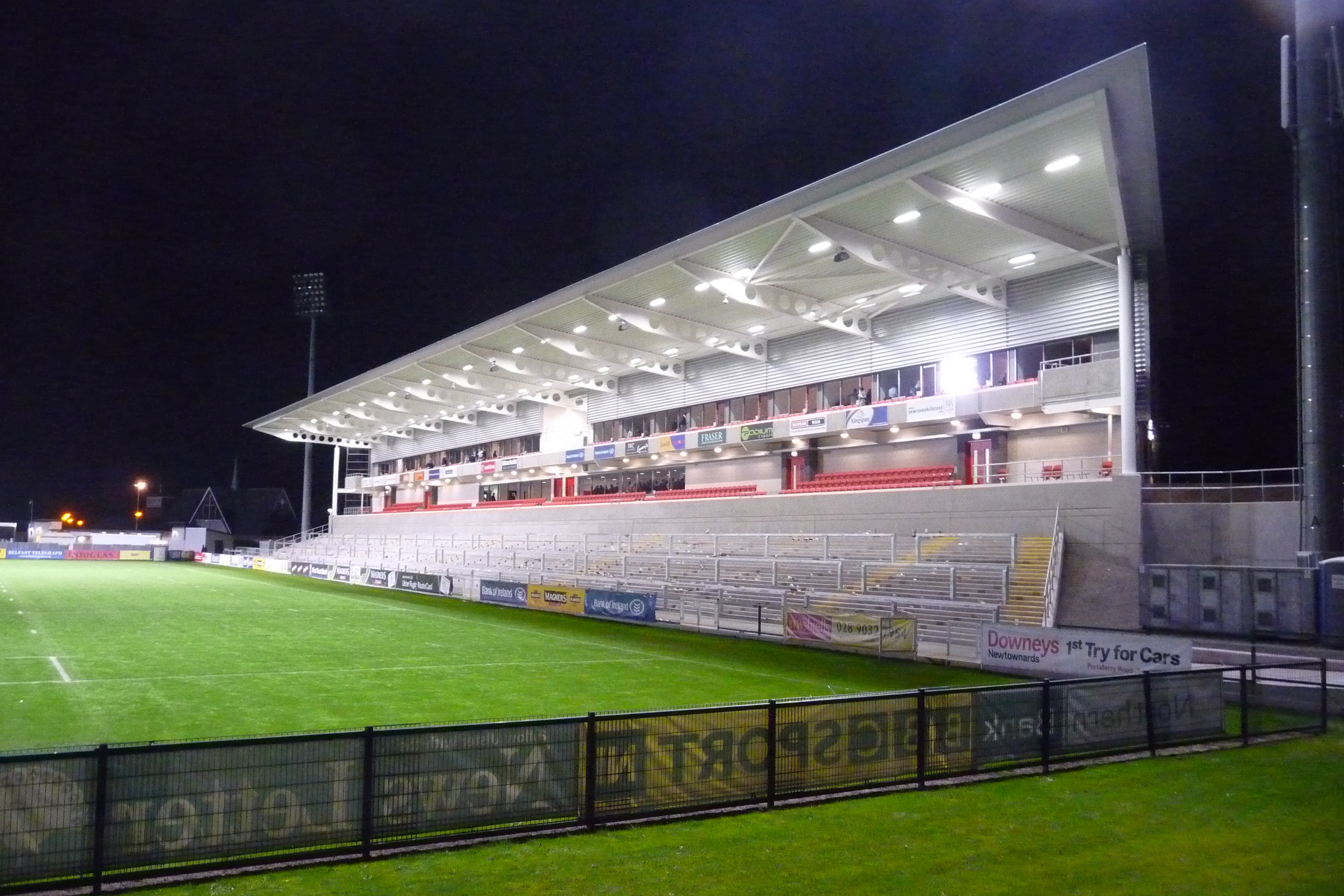 New stand at Ravenhill stadium, taken by me on the 18th September 2009.